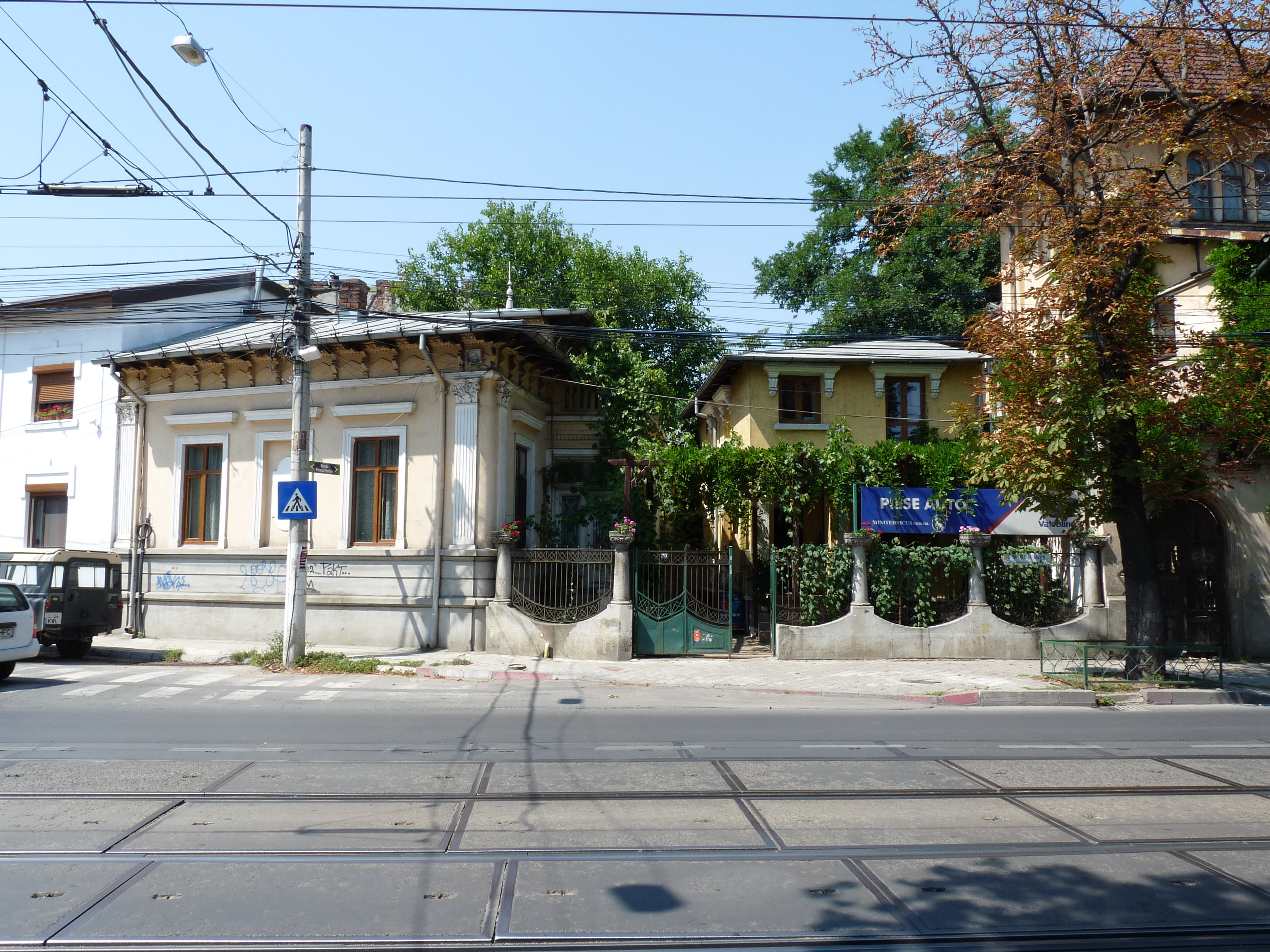 Historic building in Bucharest, Romania, on Regina Maria boulevard 68-70